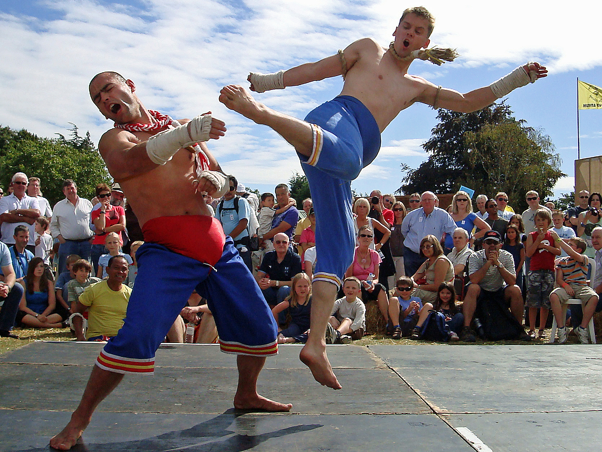 Demonstration of Muay Boran